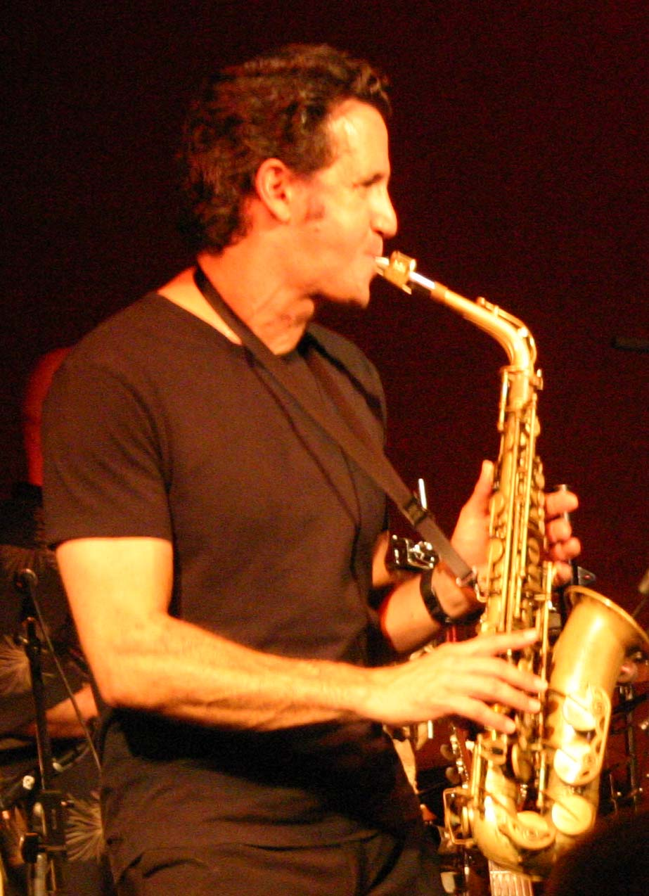 This is a photo of Eric Marienthal that I took myself and am putting into Public Domain.